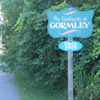 A picture of a sign found on Gormley Road East, Richmond Hill, Ontario, Canada.